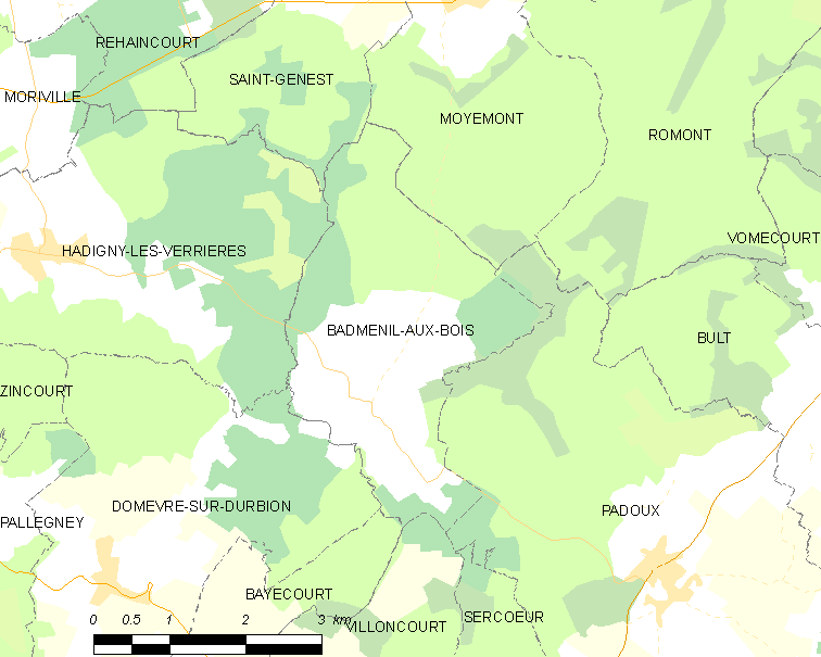 Map of French municipality Badménil-aux-Bois